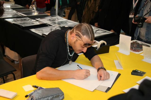 Simone Bianchi in azione a Lucca Comics & Games 2007!